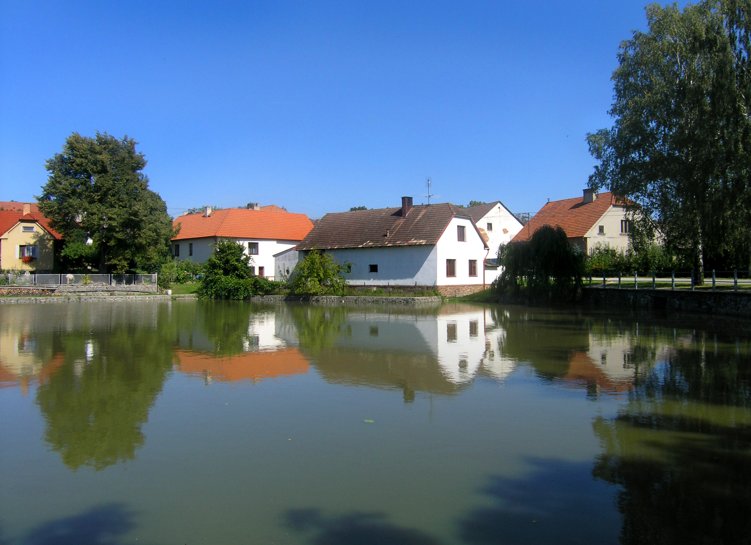 Pond in Libějice village, Czech Republic